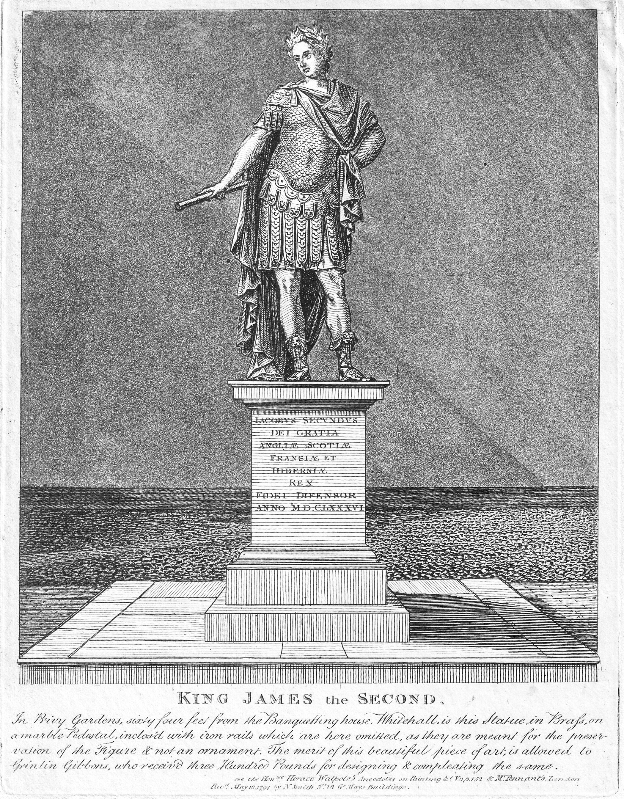 Engraving of the statue of King James II by N. Smith of 18 G Mays Buildings. Published on 13 May 1791